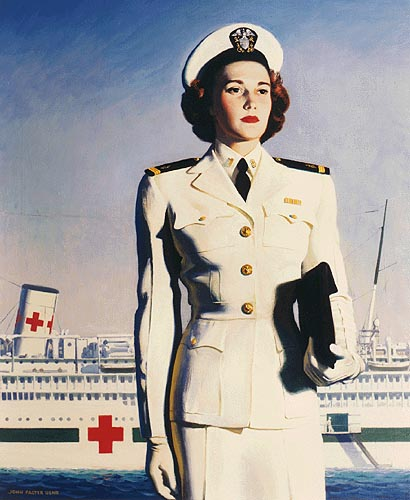 A U.S. Navy recruiting poster for the Navy Nurse Corps, issued in January 1945.The poster is cropped at the bottom.